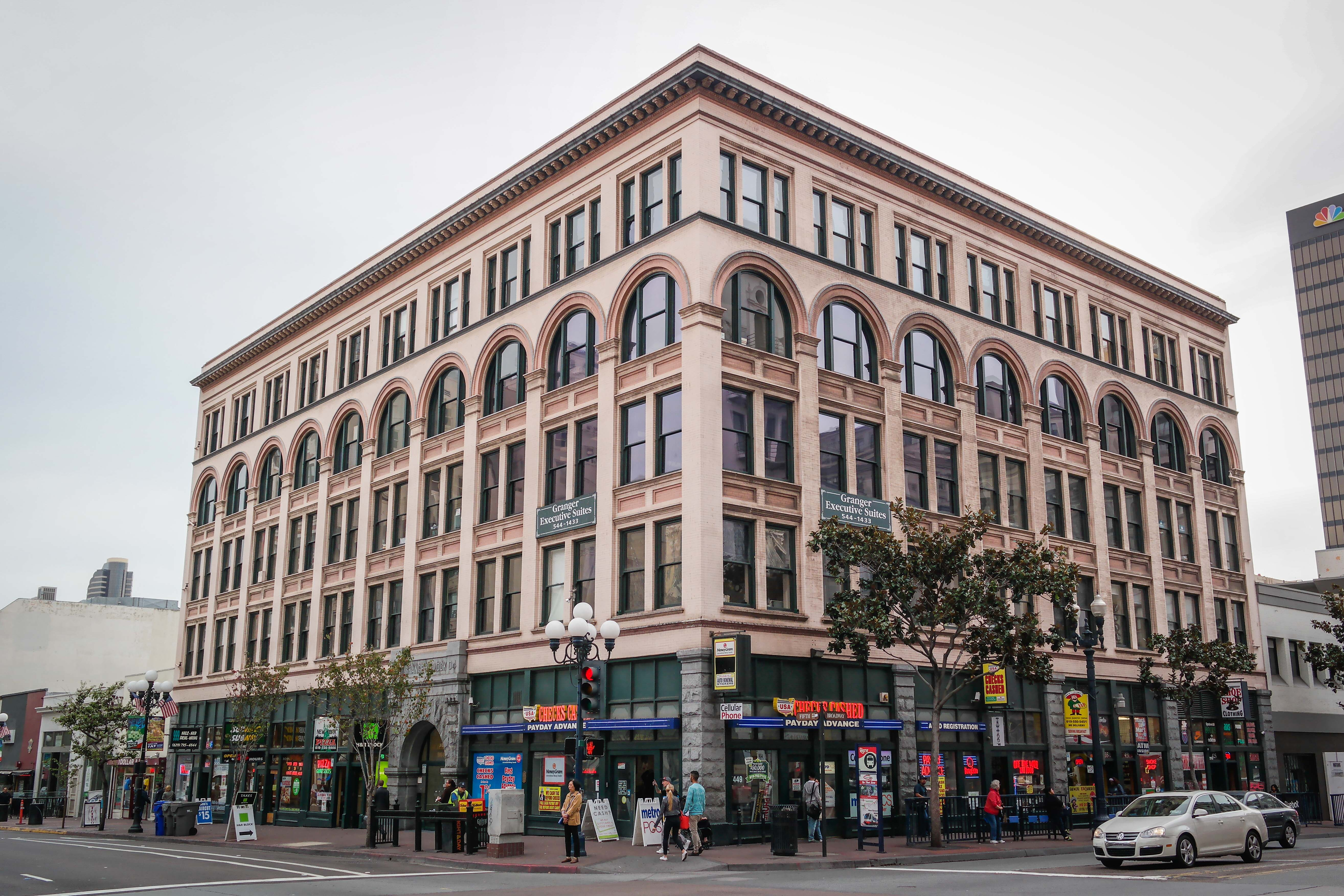 The Granger Building was constructed in 1904 as the home of Merchants National Bank in San Diego. Ralph Granger was a vice president of the bank. J. Jessop and Sons Jewelers also operated from the Granger Building, and Jessop's Clock stood outside the building until the 1980s.